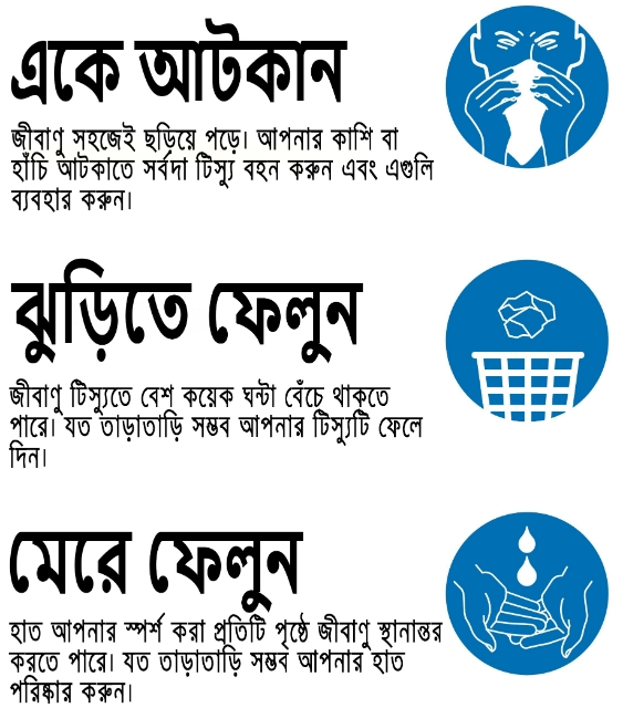 Catch it, Bin it, Kill it poster, New Bengali translated version under OGL 2017